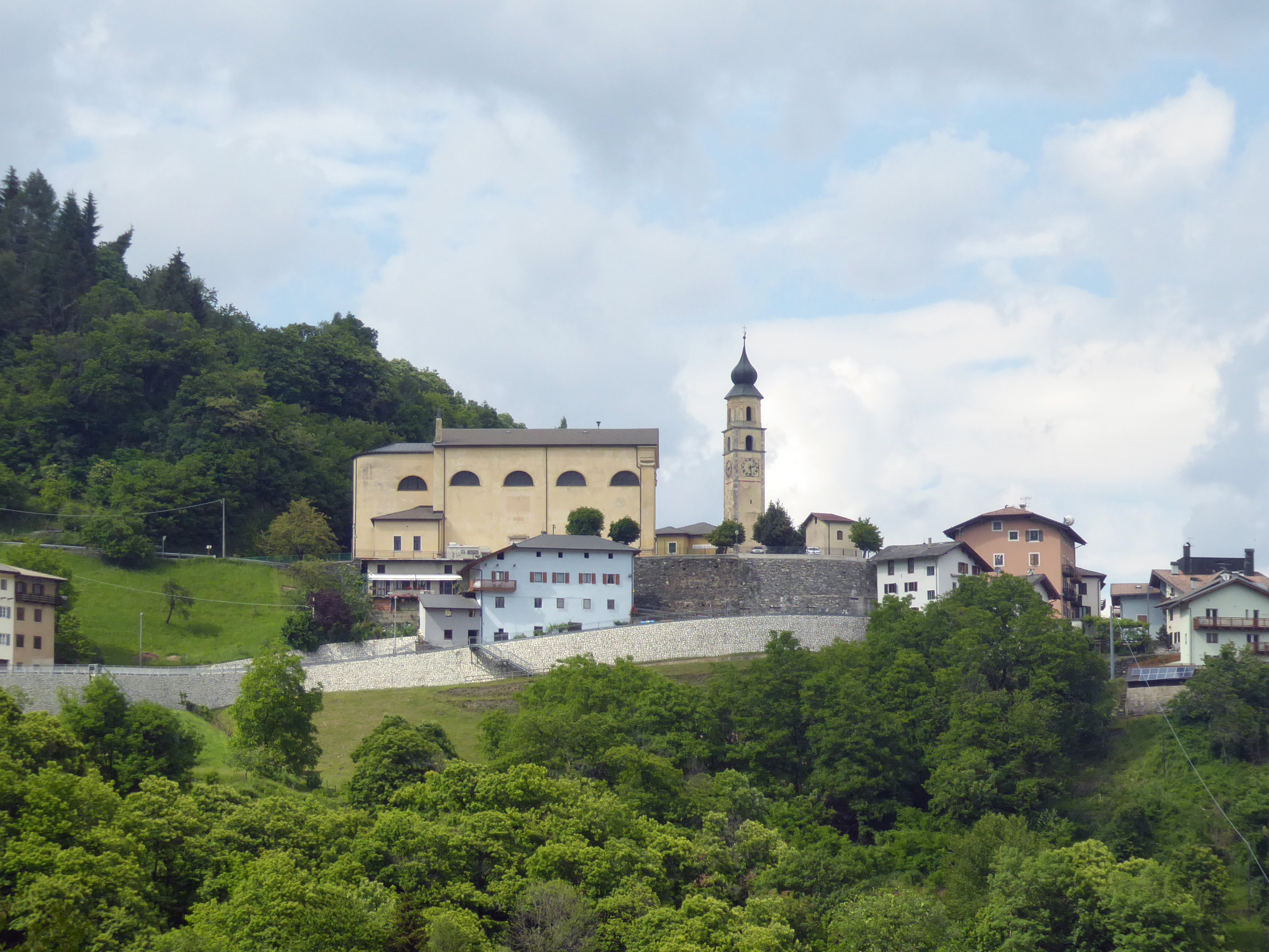 Centa San Nicolò (Altopiano della Vigolana, Trentino, Italy) - View with the old and new church, both dedicated to Ssaint Nicholas, and the belltower